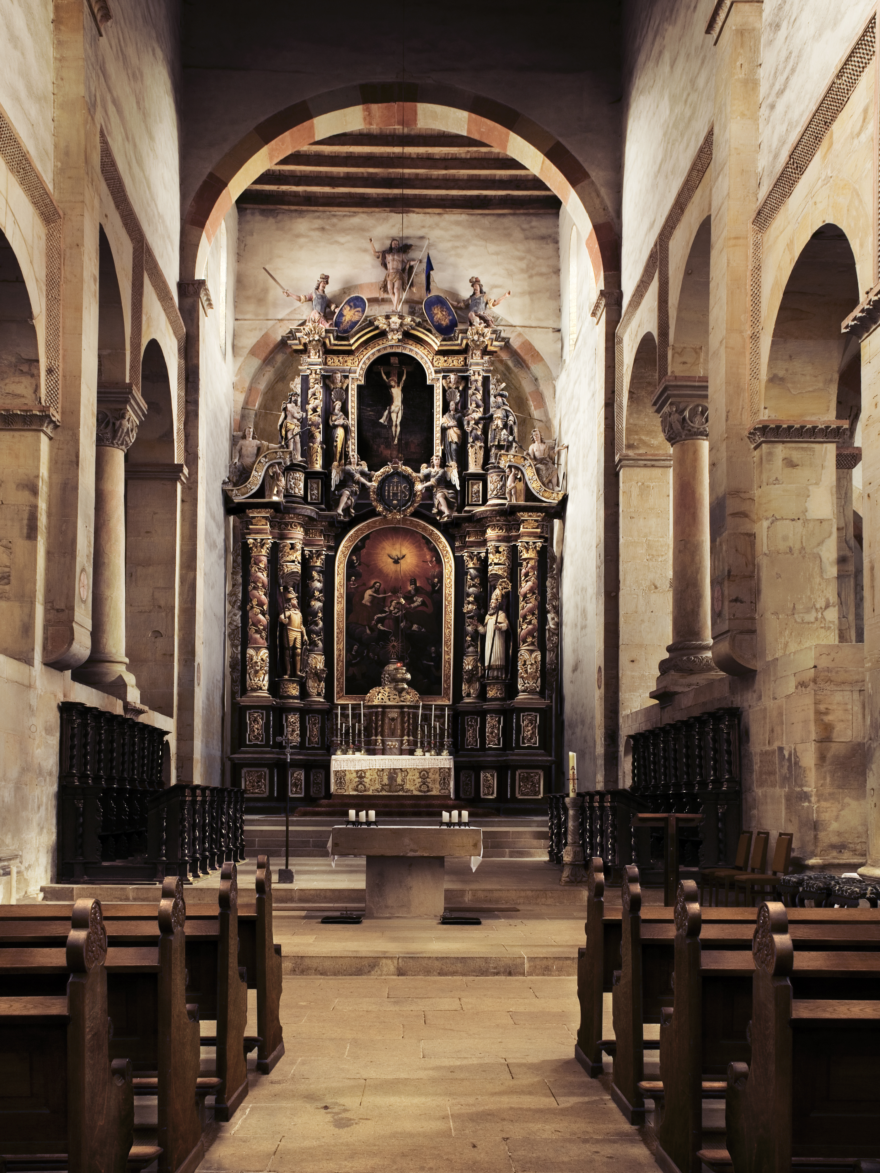 interior view Kloster Hamersleben